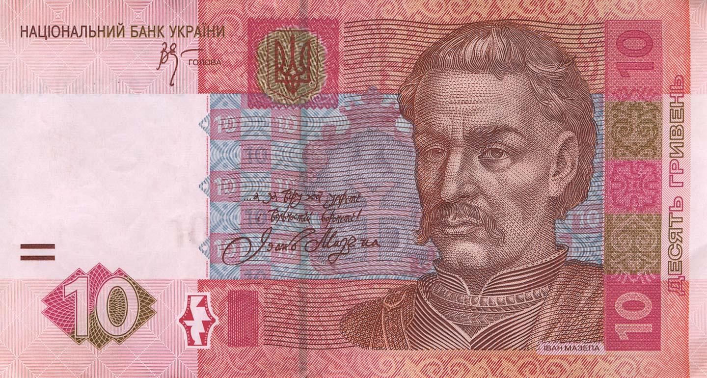 10 Hryvnia 2005 front